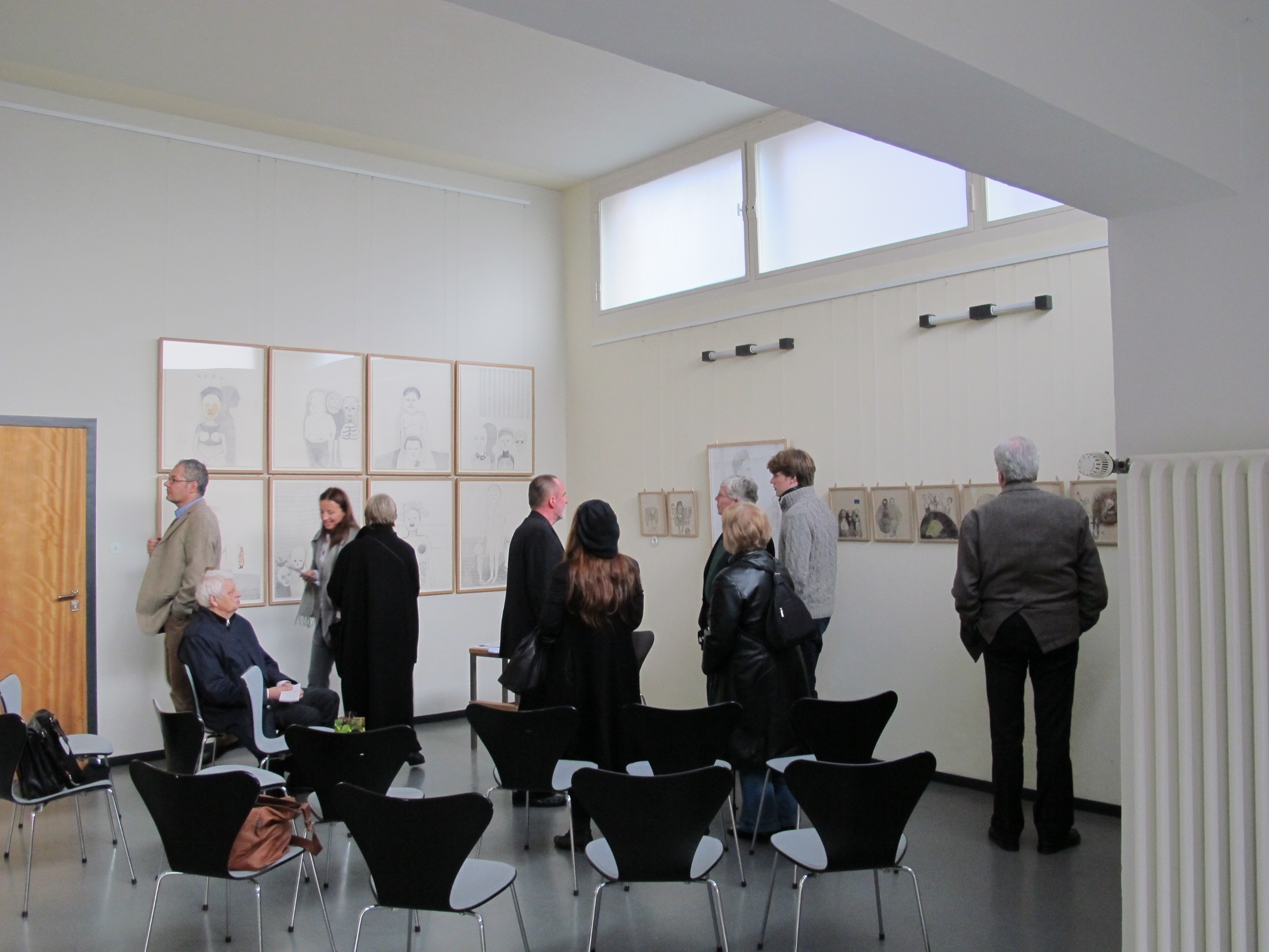 Haus am Horn, interior, salone